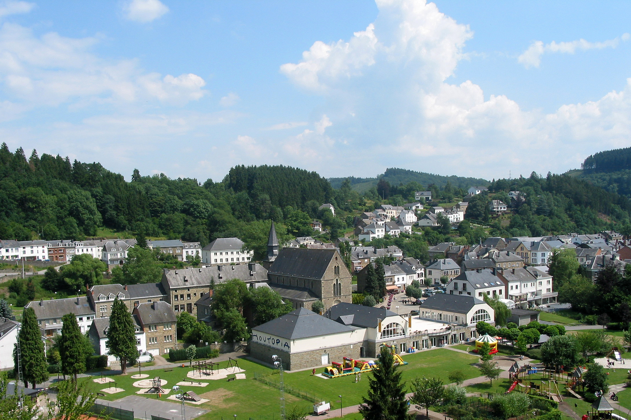 Houffalize (Belgium), overview on the city.